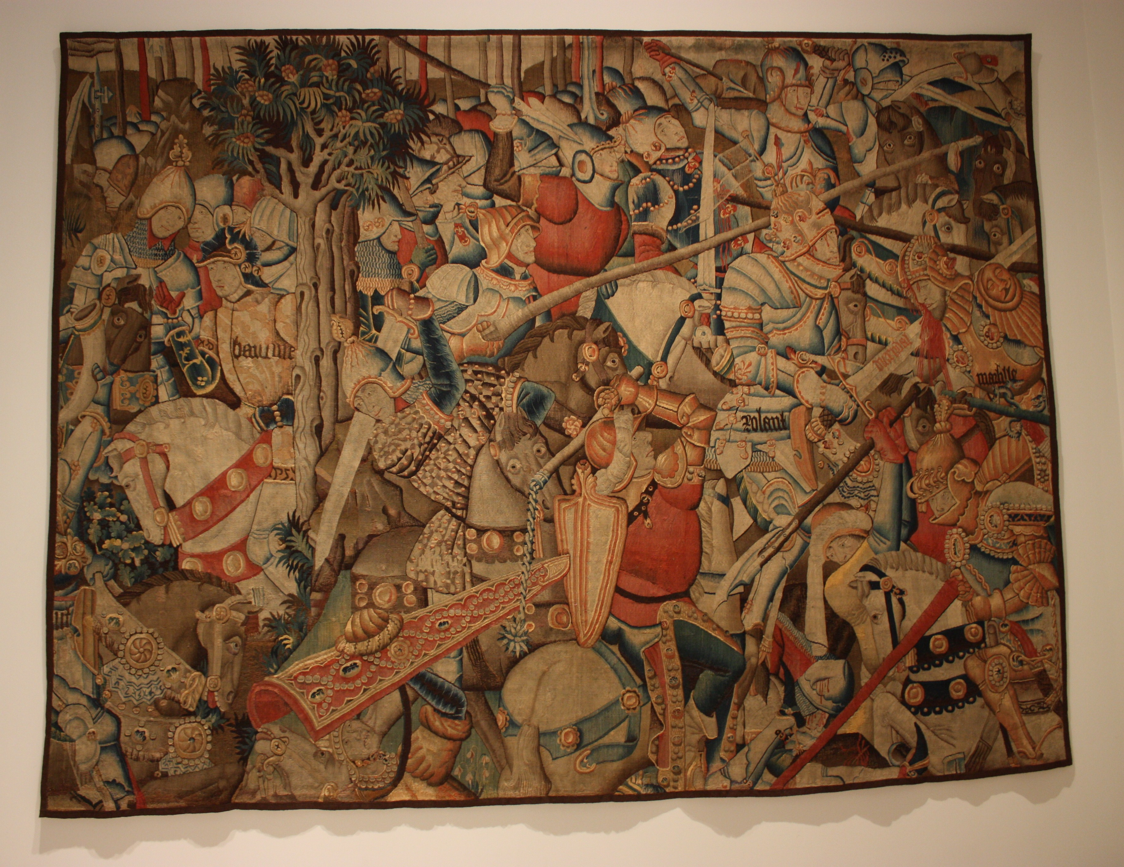 The Battle of Roncevaux 1475-1500 Southern Netherlands (Belgium, Tournai) Wool and silk, tapestry woven Violent war scenes on tapestries romanticised events from the past and connected them to modern conflicts. This fragment depicts the battle of Roncevaux in 778, when Roland, retainer of Charlemagne, fought King Marsile of Saragossa for control of Spain. The story is taken from the \'Song of Roland\', an epic French poem frequently used to rally the troops. Like the poem, the tapestry distorts events to portray the conflict as one between Christianity and Islam. Collection ID: T.95-1962 This photo was taken as part of Britain Loves Wikipedia in February 2010 by Valerie McGlinchey.